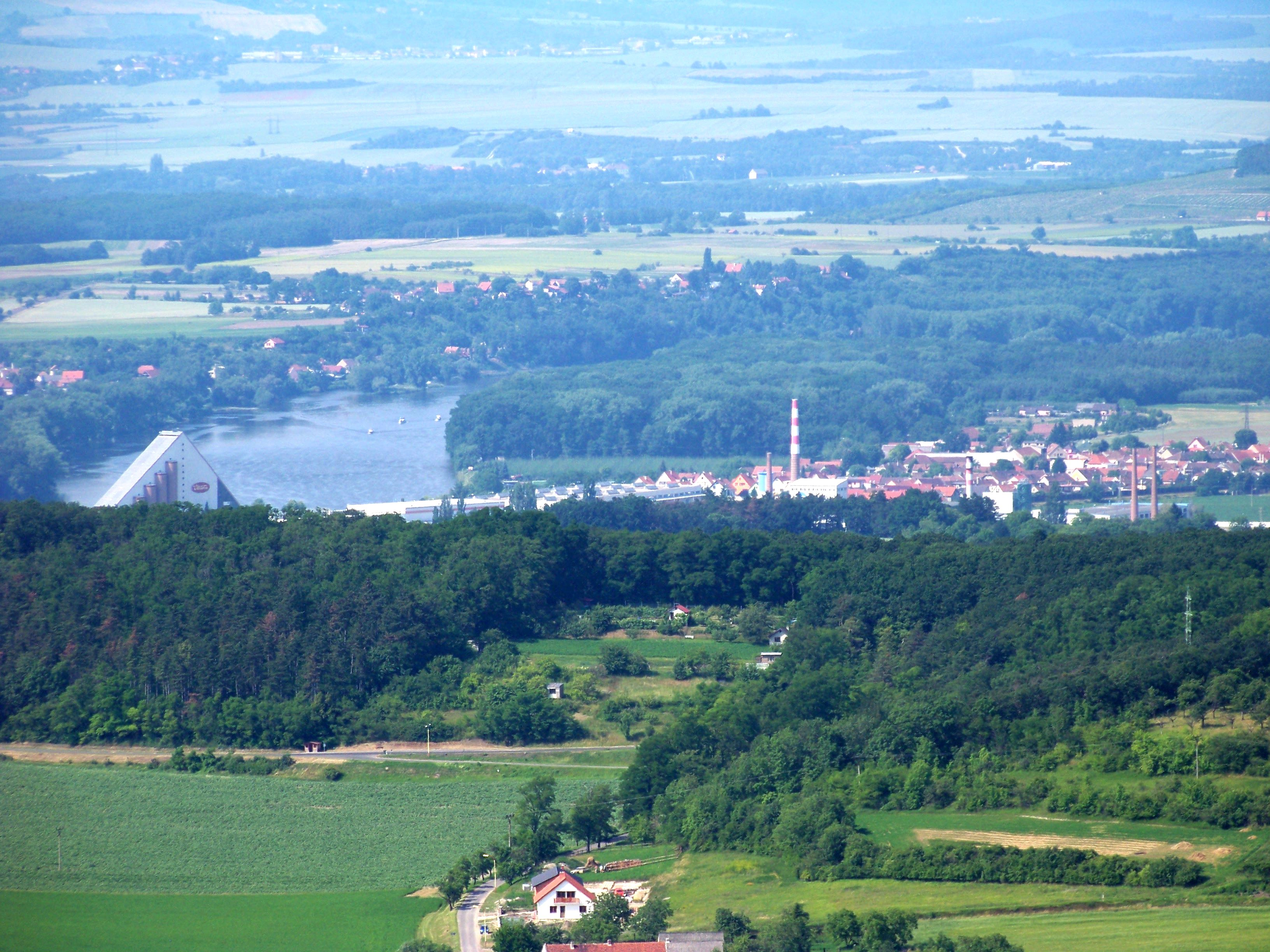 Dobříň, Litoměřice District,Ústí nad Labem Region, the Czech Republic. A view from Říp Mountain.